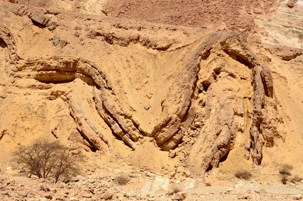 A nappe in Eilat Mountains, Israel, called "The Finger of God"